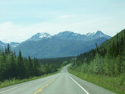 James Love, MileByMile Media, Driving south on The Alaska Tok Cutoff Highway